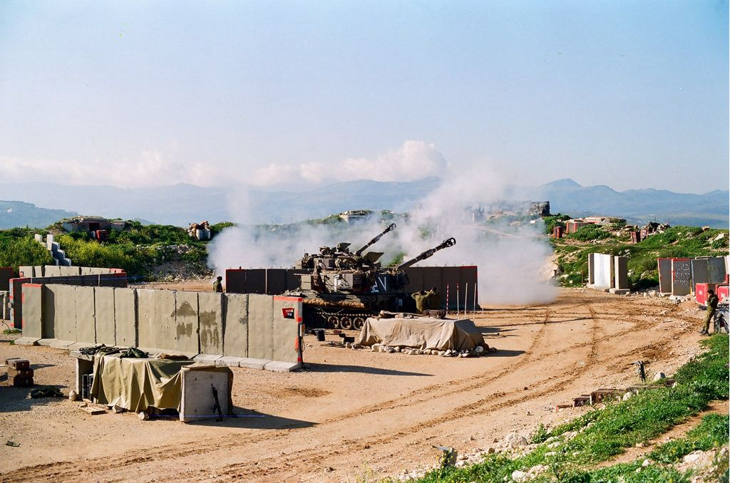 מבט לתוך מוצב שרייפה ברצועת הביטחון ועל התומ"תים - צולם מהסוללות המזרחיות על יד שחר